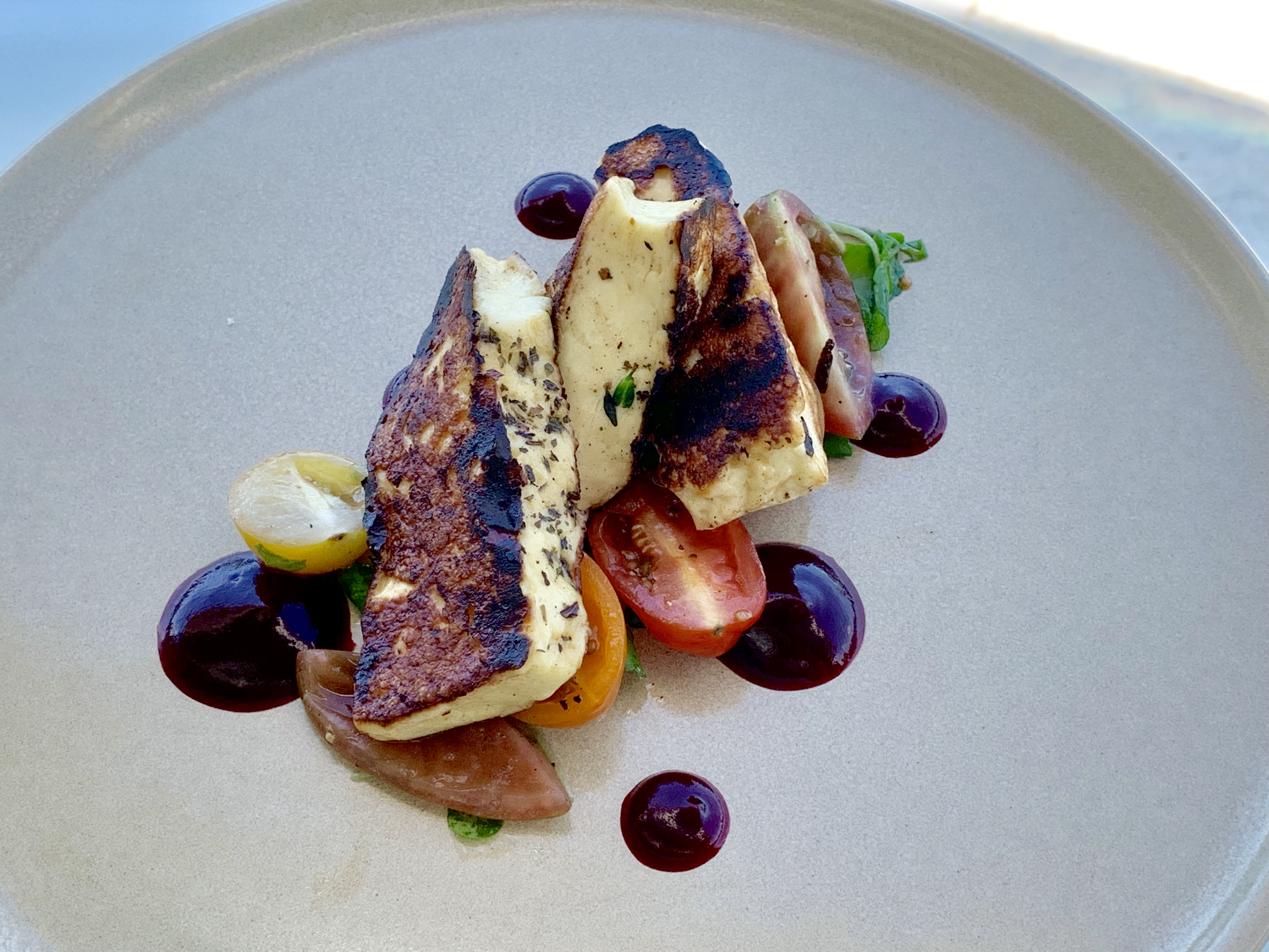 Haloumi dish at The Terrace, Emporium Hotel South Bank, Brisbane